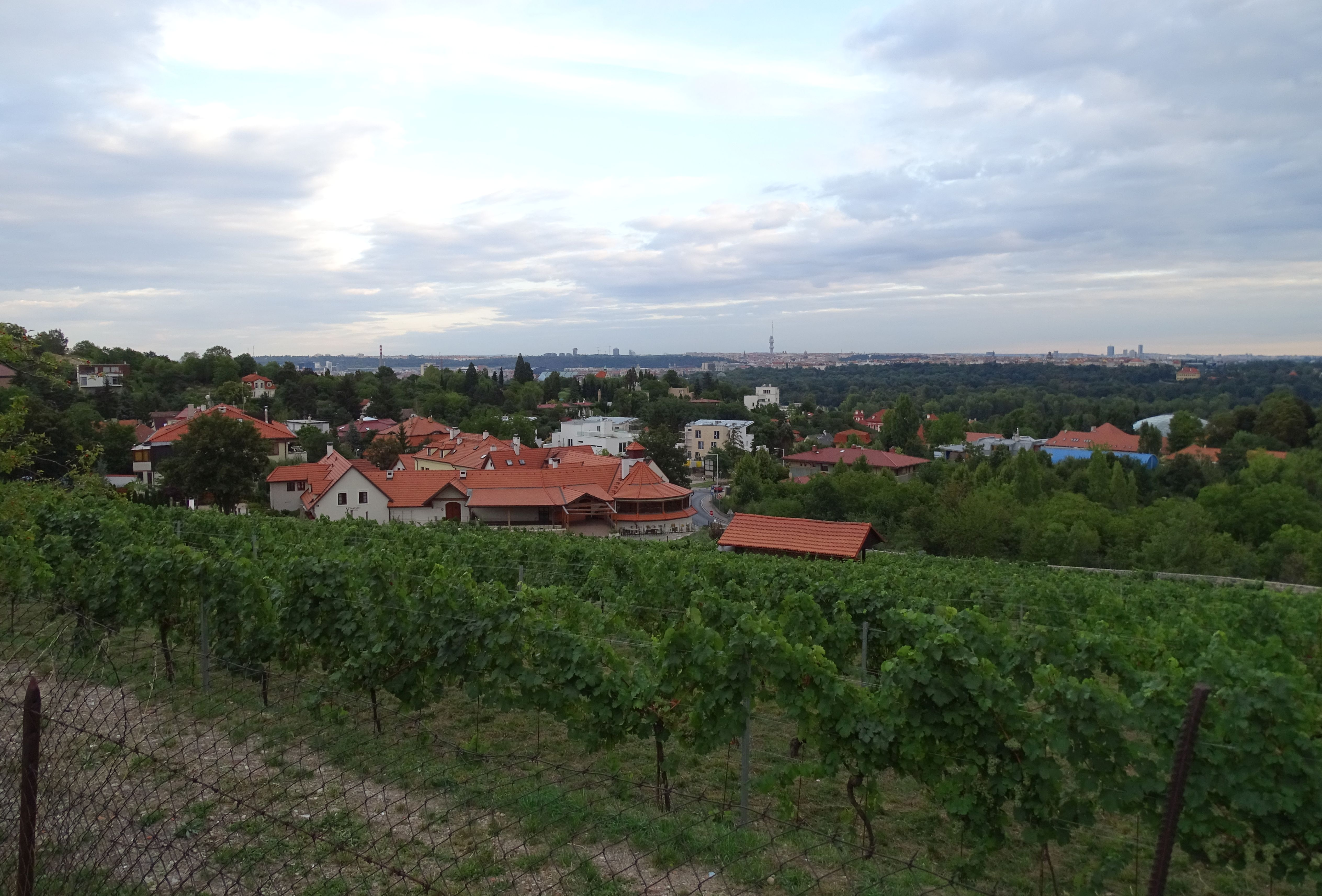 Prague-Troja, Czech Republic. K Bohnicím street, Salabka.